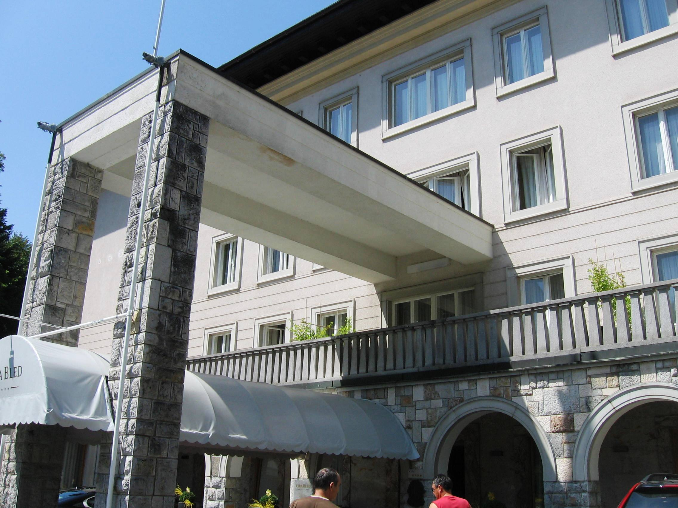 Villa Bled, entrance, Bled, Slovenia